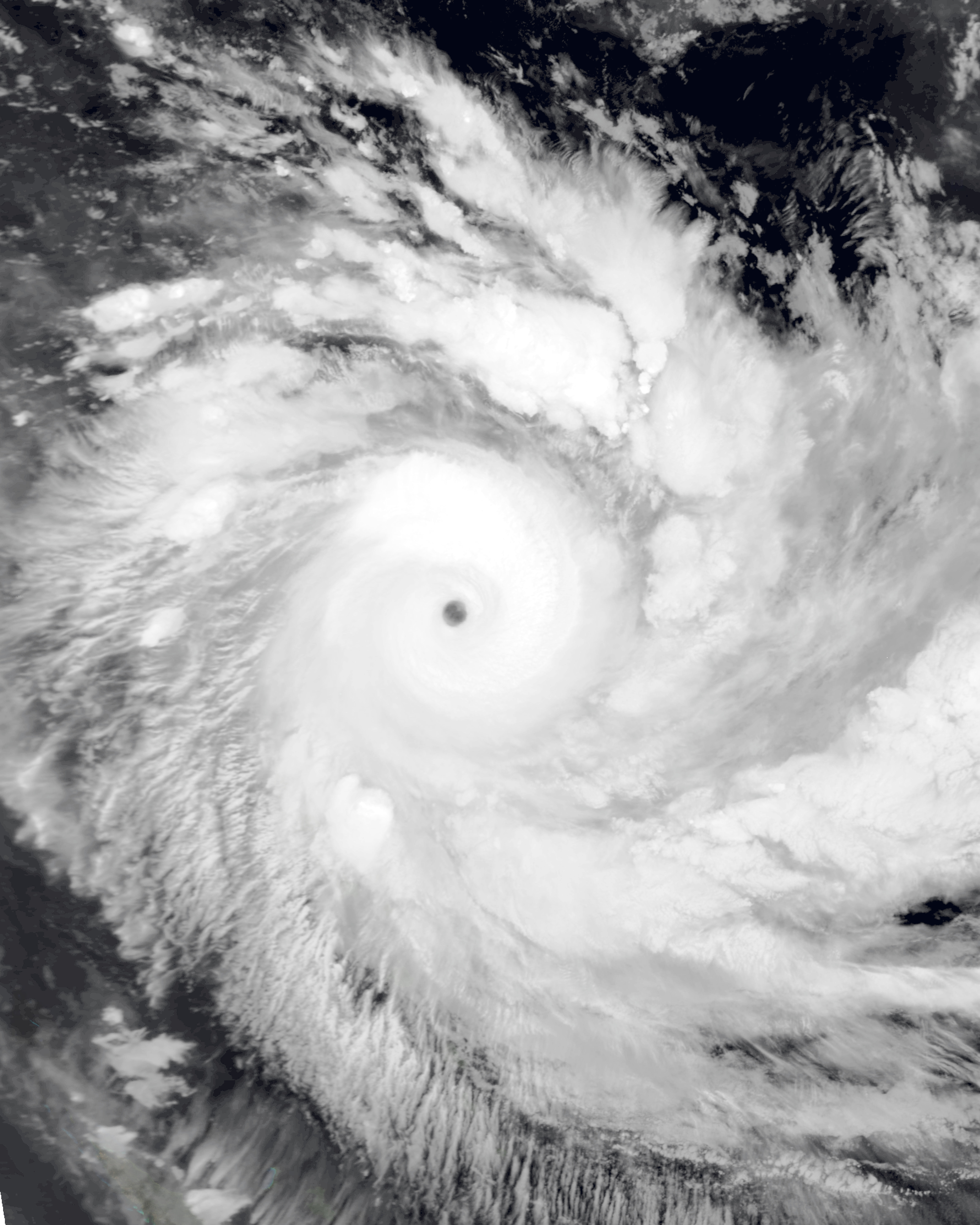 Severe Tropical Cyclone Zoe at peak intensity on December 28, 2002.